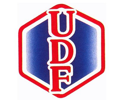 UDF logo, 1978